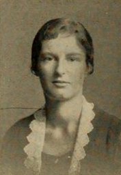 Lois Tripp Slocum, from a 1921 publication. A yearbook photo of a young white woman with a dimpled chin, wearing a lace-trimmed jacket.